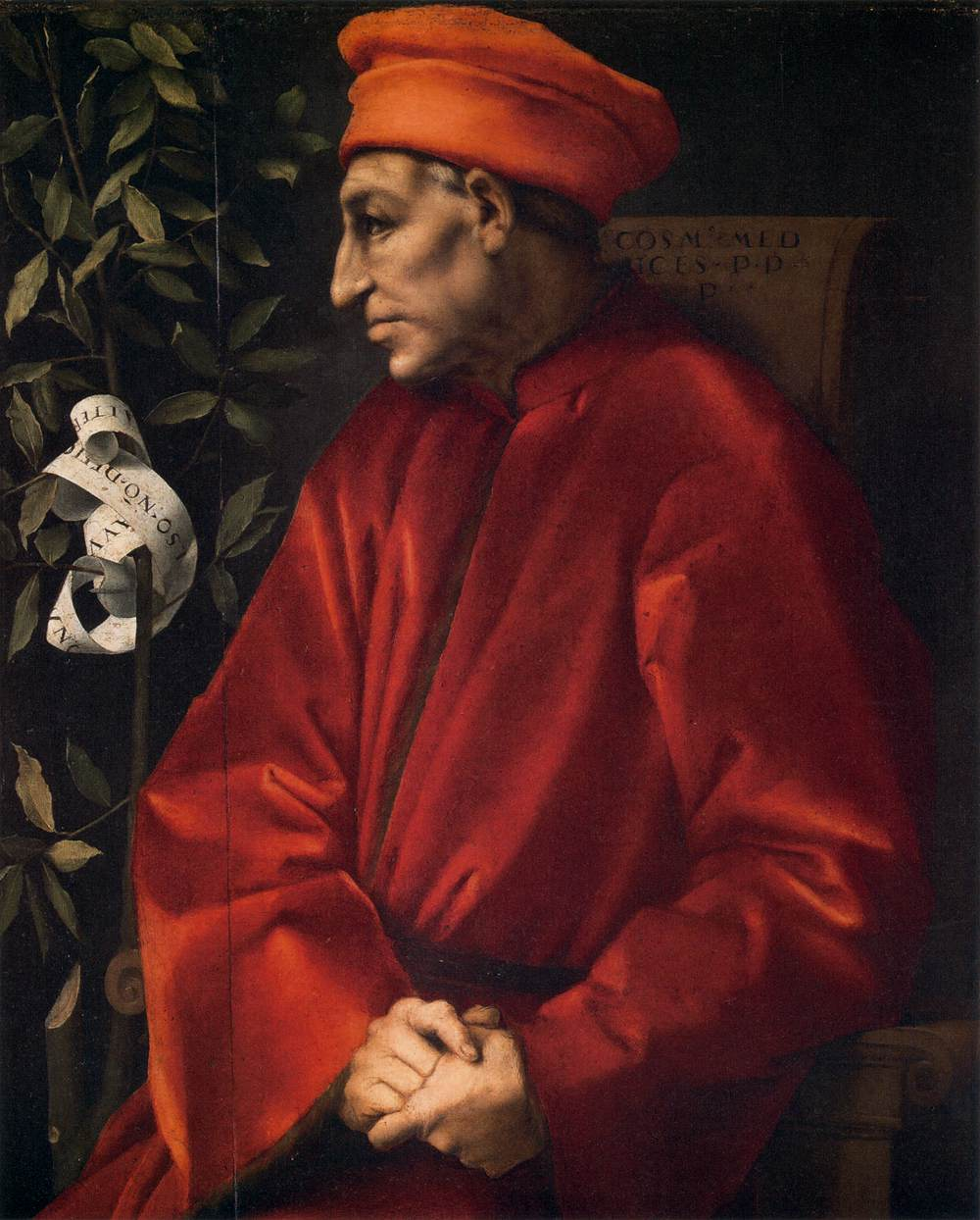 The laurel branch is a traditional Medici emblem.